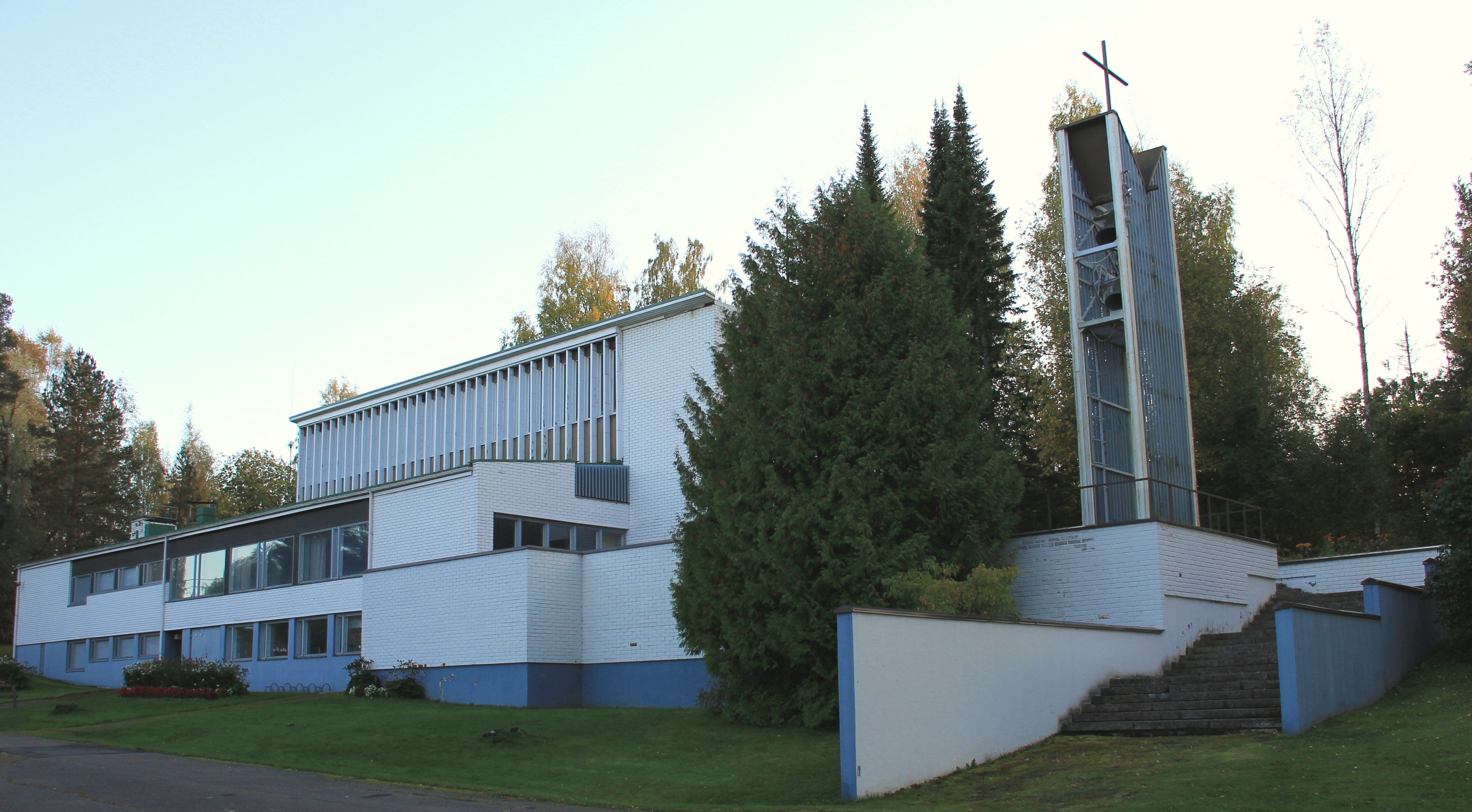 Sorsakoski Church, Sorsakoski, Leppävirta, Finland. - Completed in 1961. Designed by architect Veijo Martikainen.